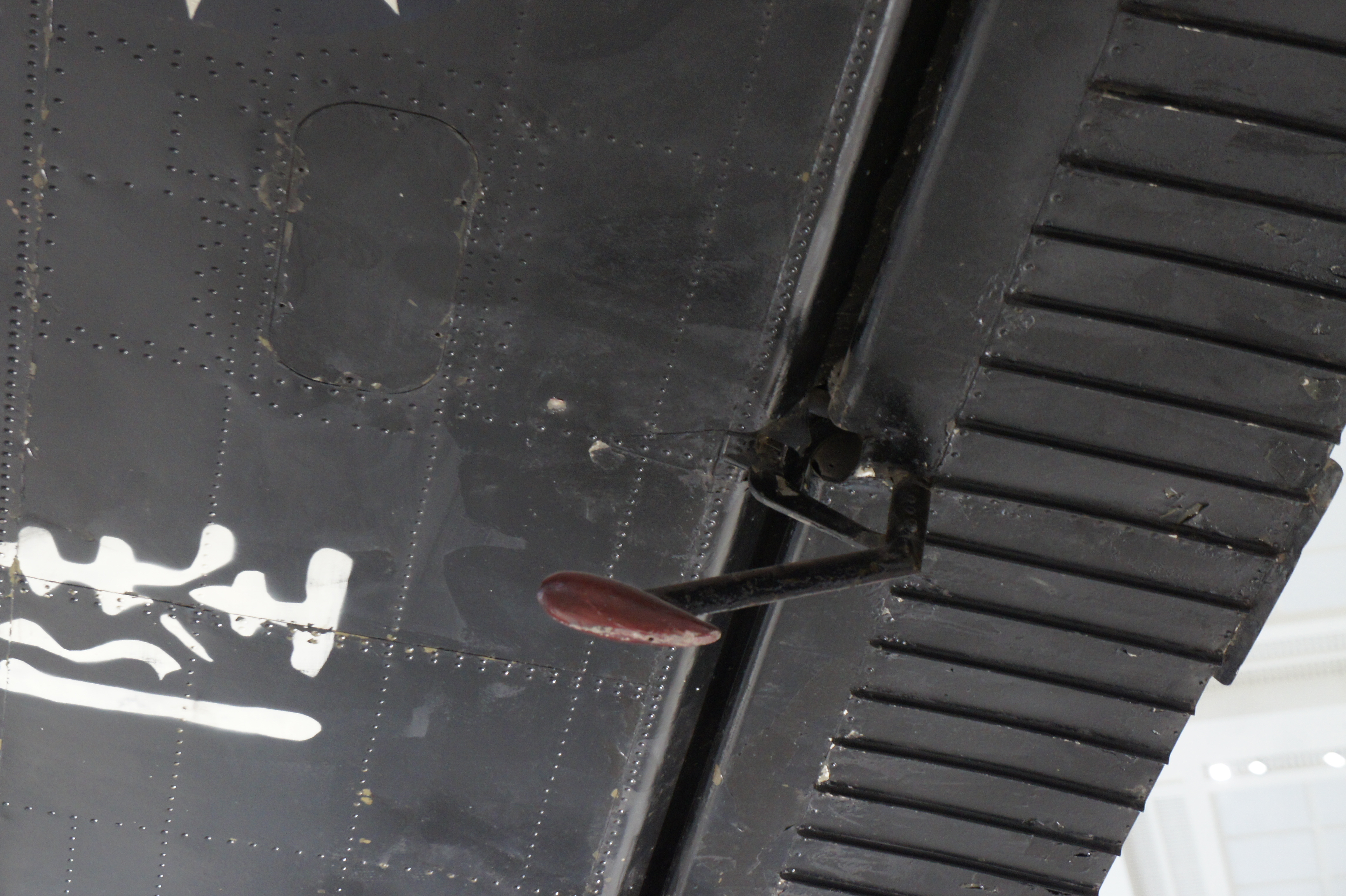 Mass balancing on de Havilland U-6A 中文（中国大陆）: 德哈维兰U-6A观察机上的副翼质量补偿。